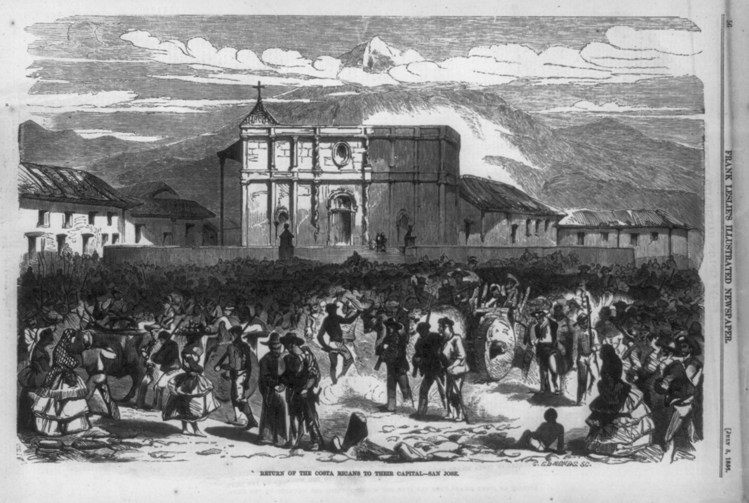 Title: Gen. Wm. Walker's Exp. in Nicaragua]: Return of the Costa Ricans to their capital--San Jose Abstract/medium: 1 print : wood engraving.